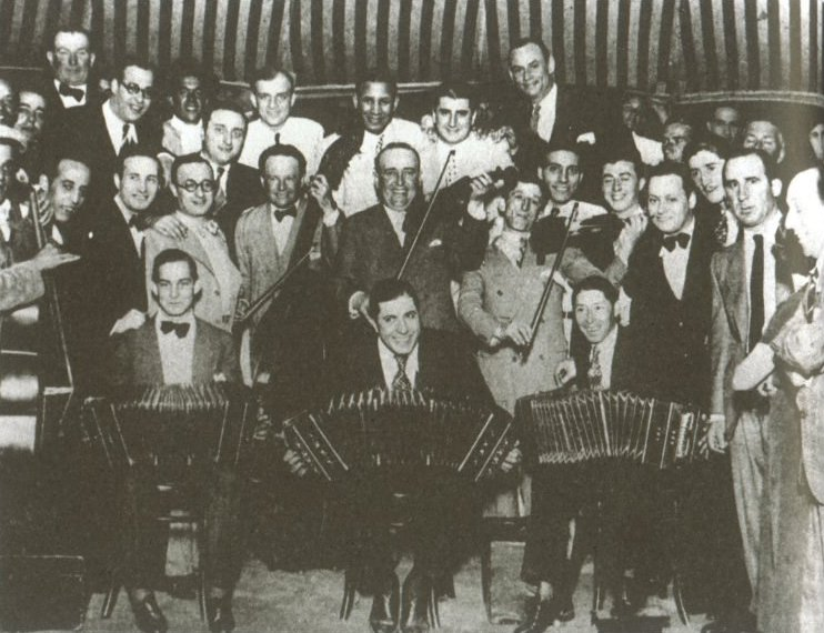 Photo taken by Francisco Maschio on November 5th, 1933, during the party that he offered to honor Carlos Gardel just before he left Buenos Aires for a world tour. Gardel will never return to Argentina, because he died in an airplane accident on June 24th, 1935. Gardel is in the center, with a bandoneon. At his left, also with a bandoneon, is his friend the jockey Irineo Leguisamo. At his right with a bandoneon is the jockey Alfredo Peluffo.